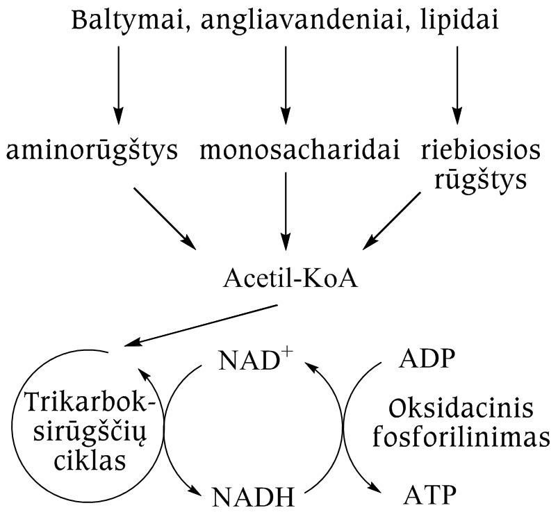 This is translation of an image for biochemistry article